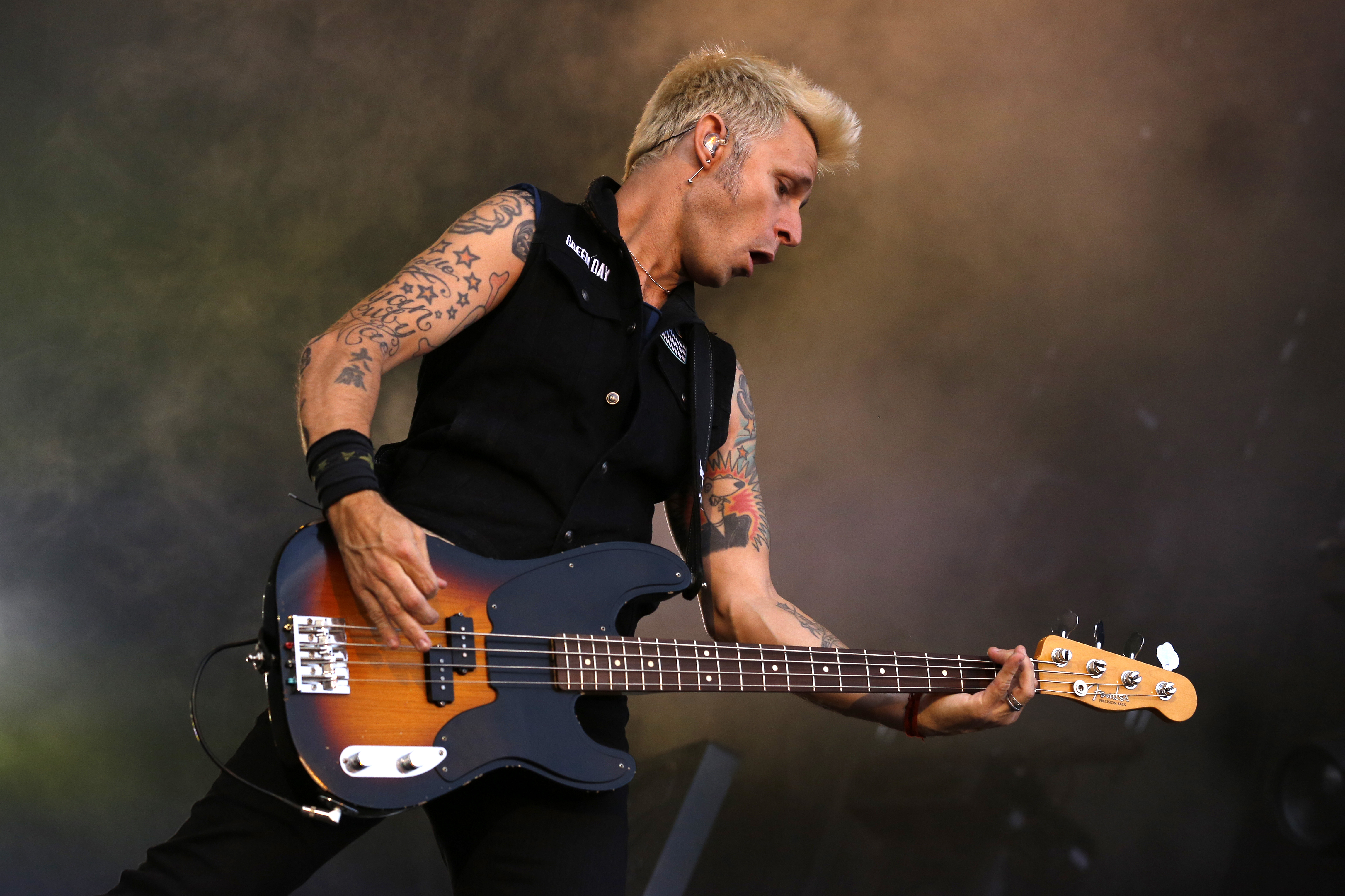 Mike Dirnt, singer and bassist of Green Day, stands on the Centerstage during Rock im Park-Festival 2013.